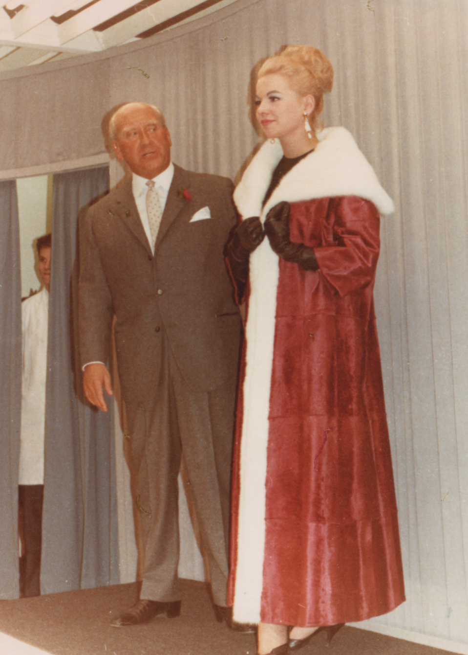 Red dyed Broadttail coat with Jasmine Mink, Germany